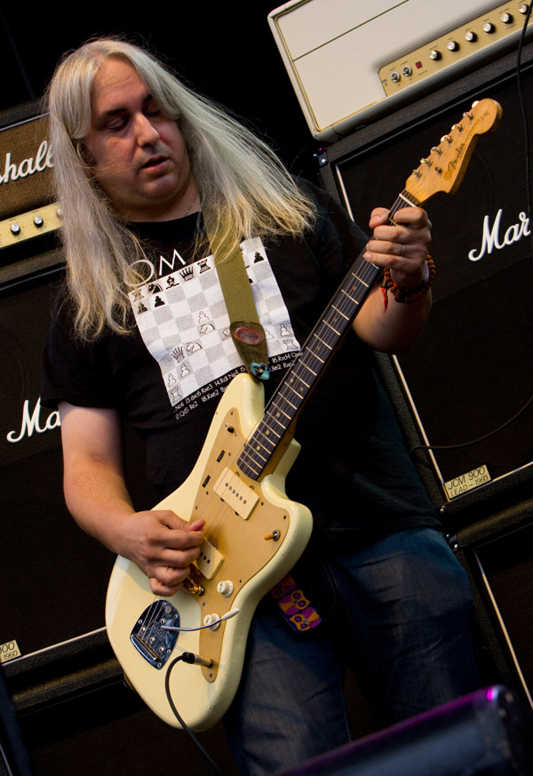 J. Mascis. Live at Virgin Music Festival 2009, Halifax, Nova Scotia. Taken by Alex Ramon